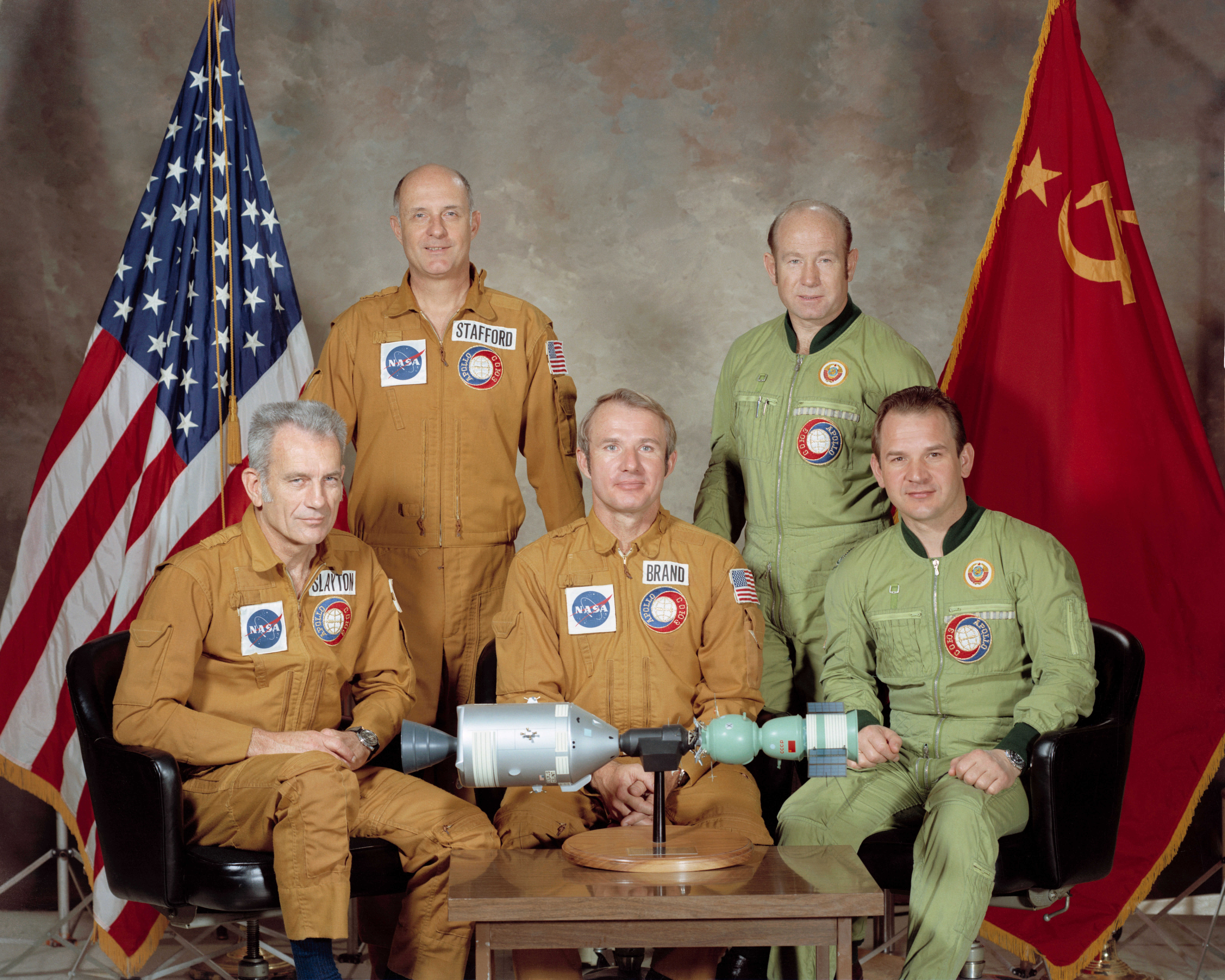 S75-22410 (March 1975) --- These five men compose the two prime crews of the first-ever two-nation cooperative space mission, known in the US as the Apollo-Soyuz Test Project (ASTP) and in the Soviet Union as the Soyuz-Apollo Experimental Flight (Russian: Экспериментальный полёт Союз-Аполлон, Eksperimantalniy polyot Soyuz-Apollon). This was a docking mission in Earth orbit scheduled for July 1975. They are astronaut Thomas P. Stafford (standing on left), commander of the American crew; cosmonaut Aleksey A. Leonov (standing on right), commander of the Soviet crew; astronaut Donald K. Slayton (seated on left), docking module pilot of the American crew; astronaut Vance D. Brand (seated center), command module pilot of the American crew; and cosmonaut Valeriy N. Kubasov (seated on right), engineer on the Soviet crew. The crew members wear the same mission patch, but oriented to reflect "Soyuz-Apollo" or "Apollo-Soyuz", as the program was called in their respective countries. Persian